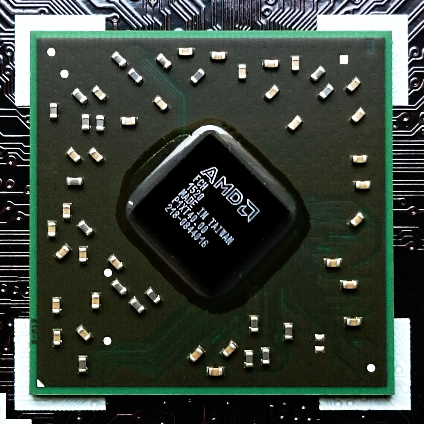 AMD Fusion Controller Hub A88X (Bolton-D4) on an ASUS Mainboard